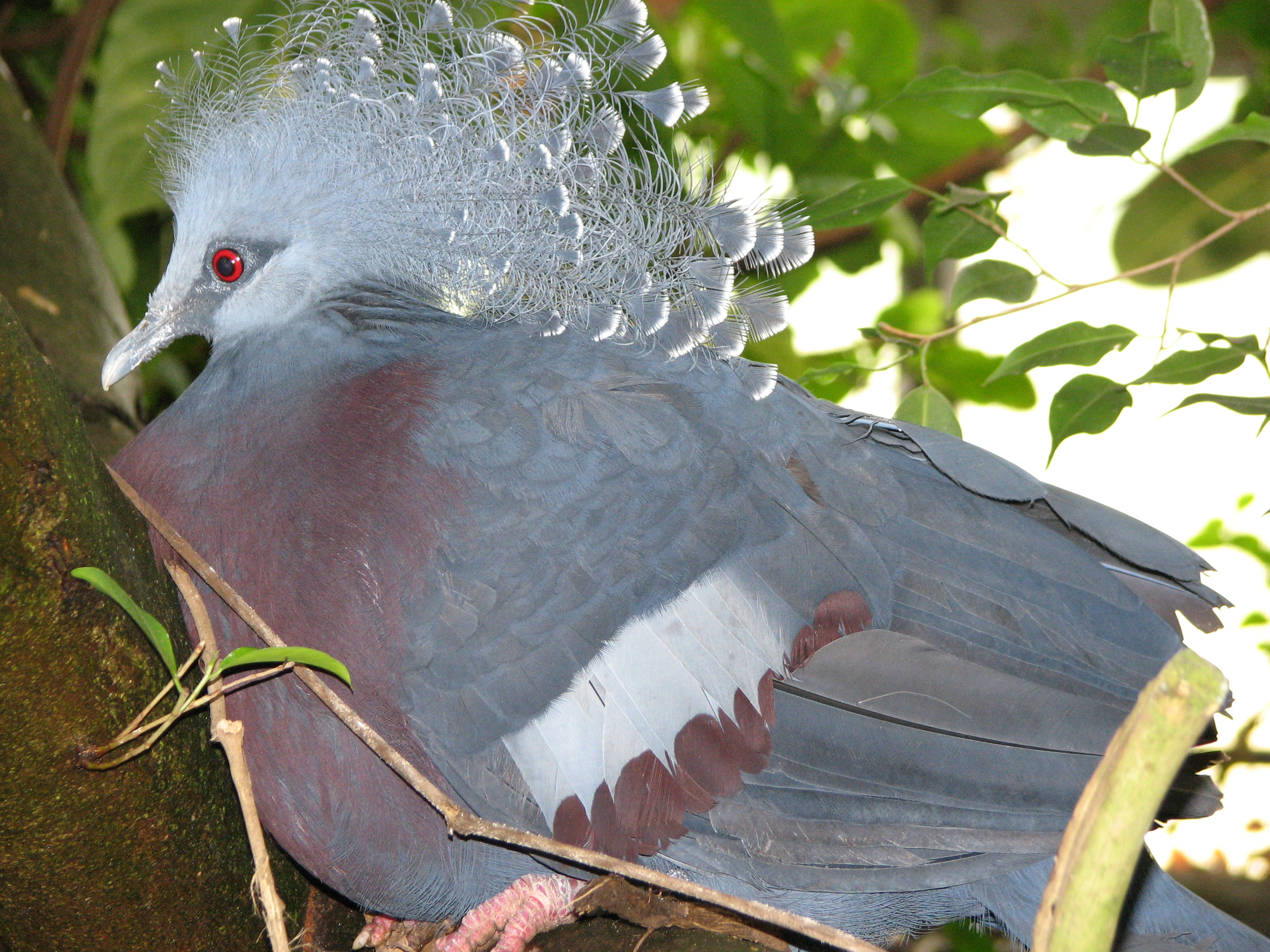 A photograph of a Victoria Crowned Pigeonen (Goura victoria en ). Photo taken at the National Aviary.